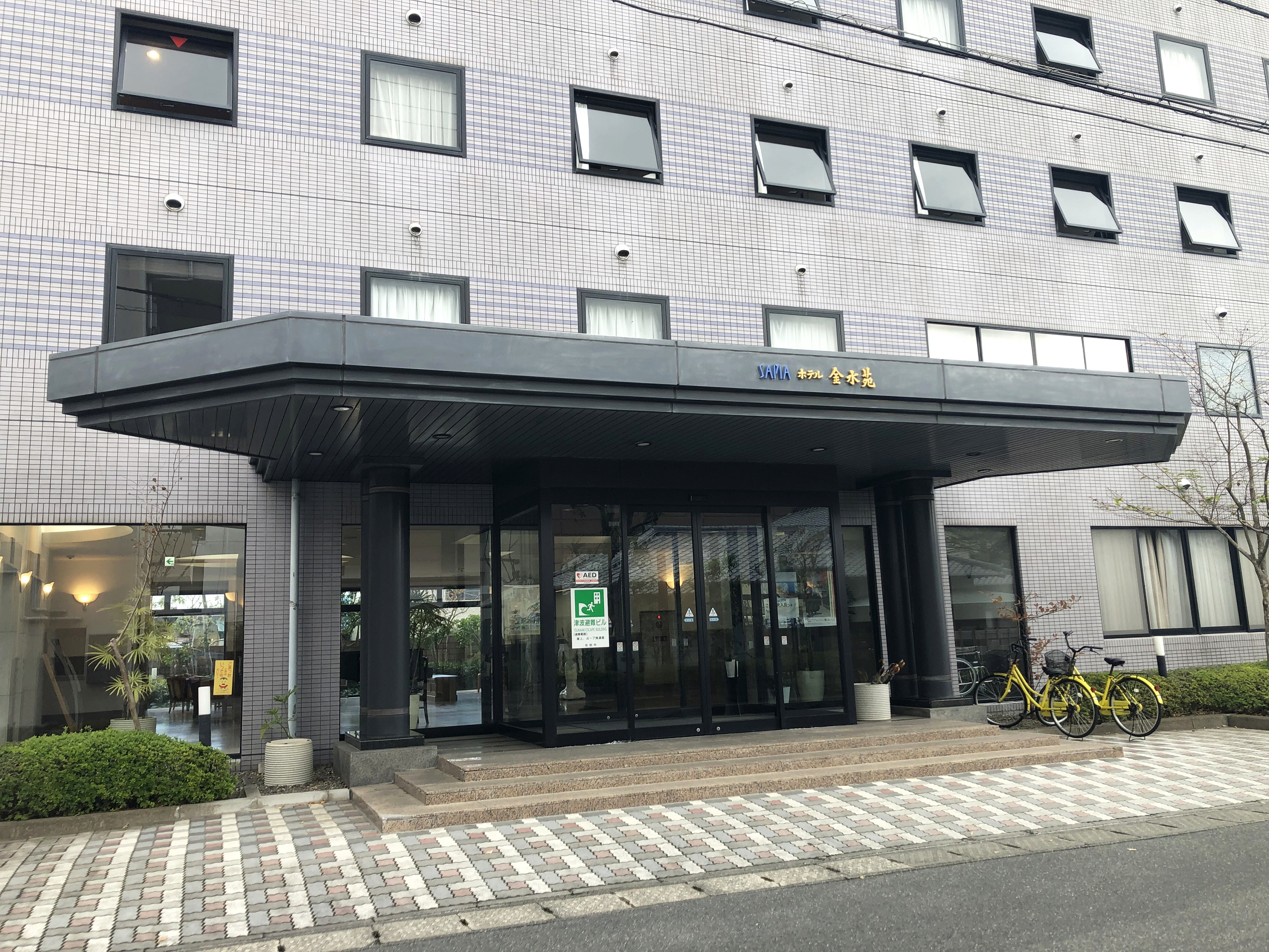 Hotel kinsui-en Annex Entrance.Photographed in Japan.